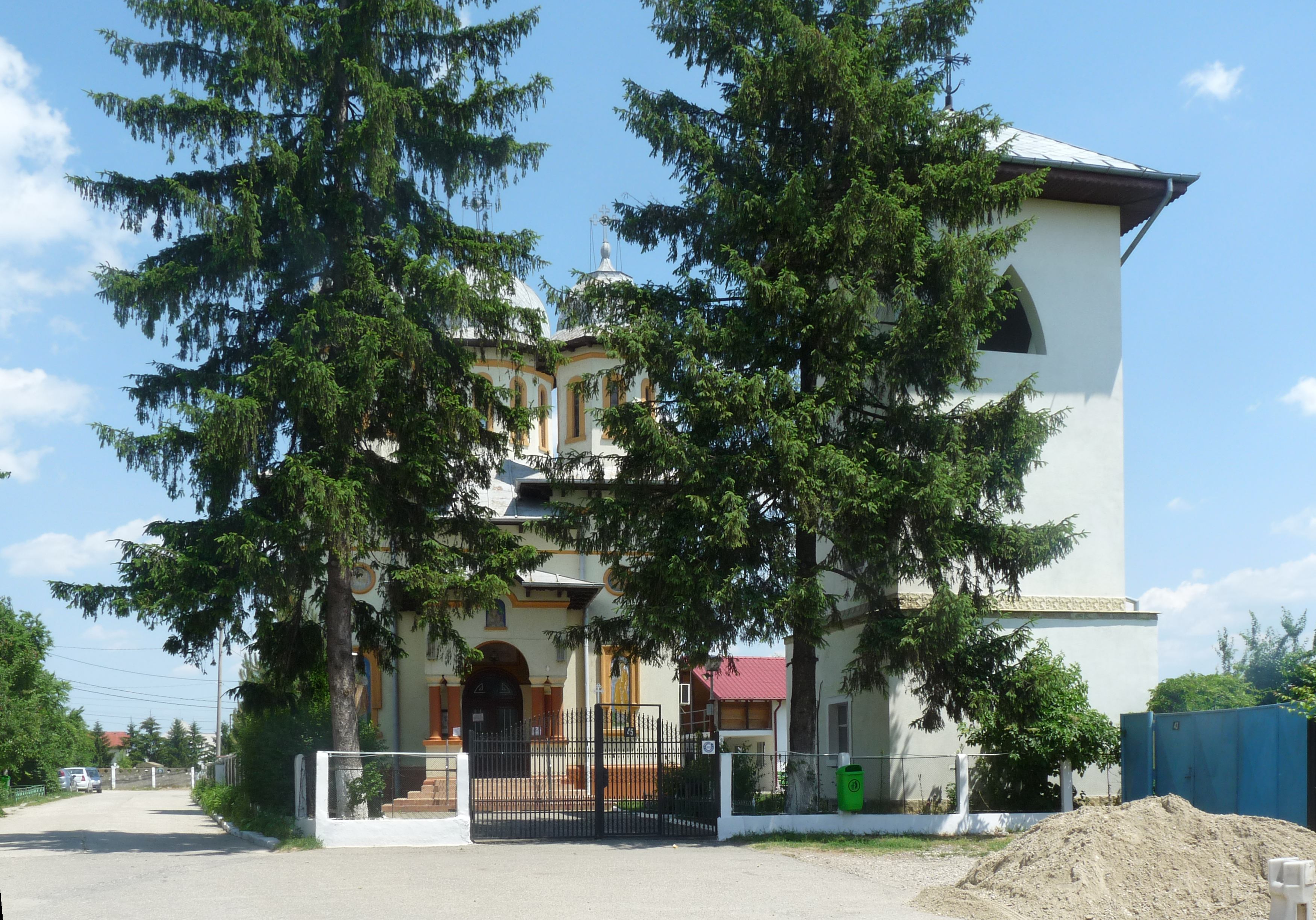 Saint Nicholas' church in Ghermănești, Snagov commune, Ilfov County, RomaniaRomână: Biserica „Sfântul Nicolae” din Ghermănești, comuna Snagov, județul Ilfov, România